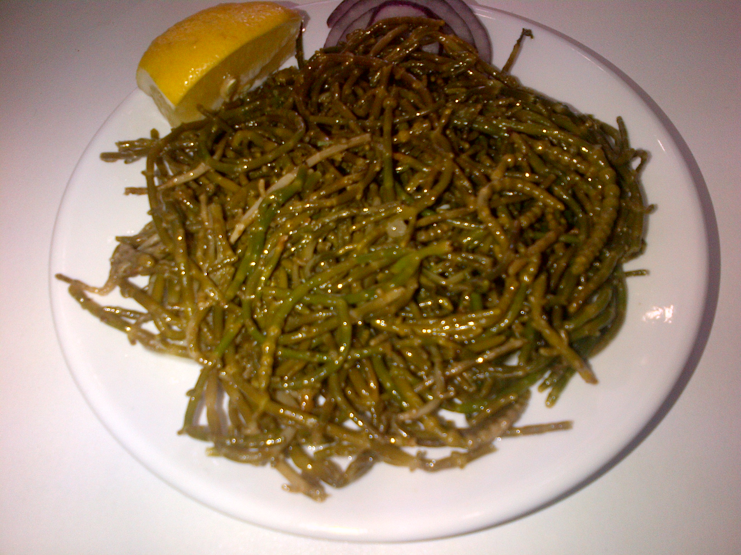 Glasswort salad ("Deniz börülcesi salatası" in Turkish) in Ankara, Turkey.